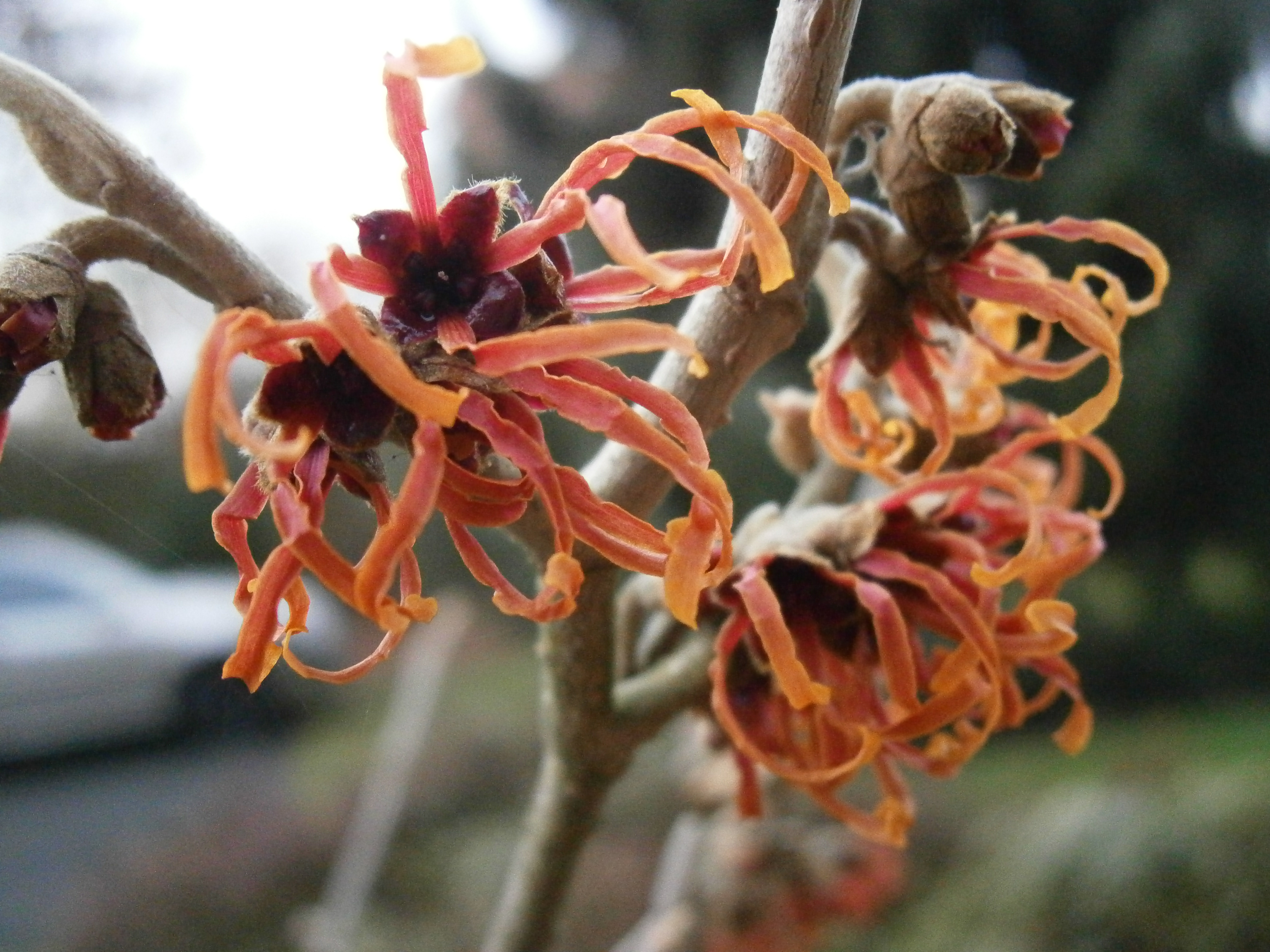 Hamamelis 'Jelena' - Early blooming (December 2012)